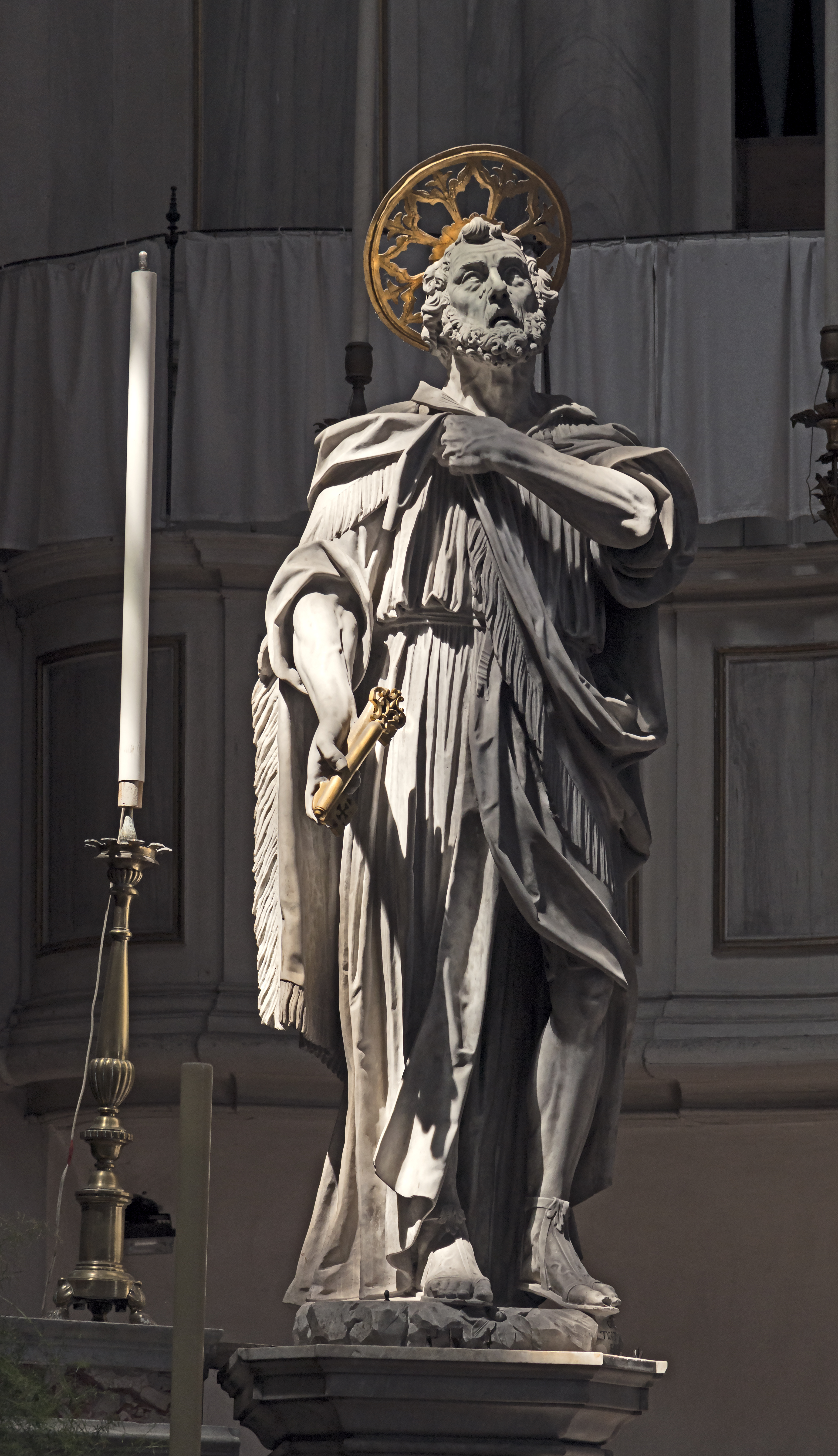 San Geremia, Venice. "Saint Peter", marble sculptures by Giovanni Ferrari.